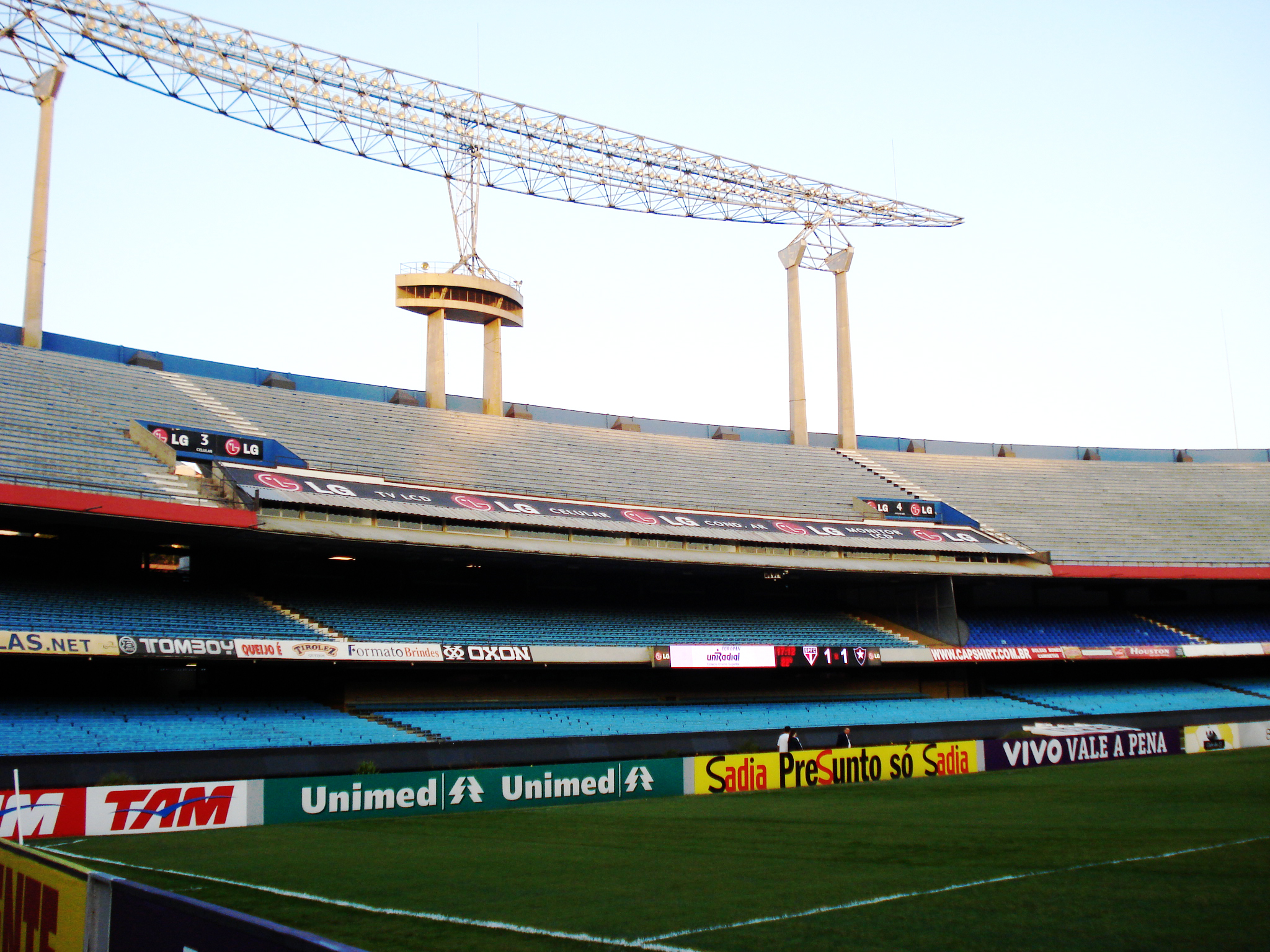 inside photo of the Cícero Pompeu de Toledo stadium, known as Morumbi. Photo taken one day before of the match between São Paulo and Botafogo for the Brazilian Championship of 2008.